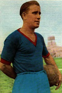 Juan Andres Marvezzi during his time as a Tigre player in Argentina (1937-1941)